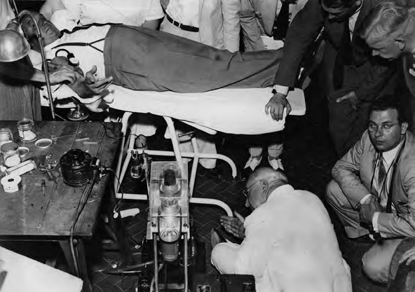 Edwin J. Cohn & Jose Antonio Grifols Lucas at the 4th International Congress of Blood Transfusion, Lisbon, 1951